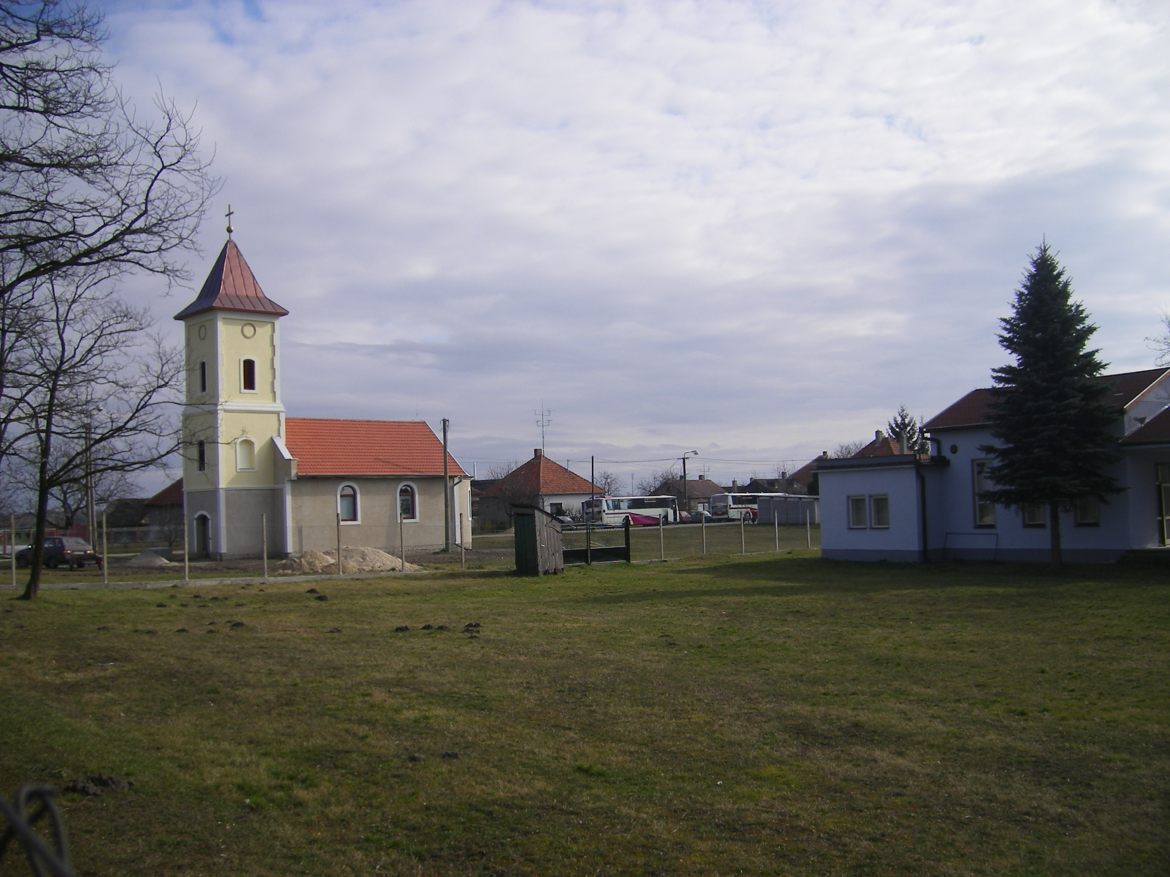 Roman Catholic Church in Veľké Kosihy (Komárno district)